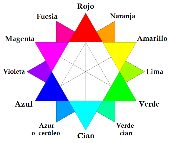 RGB color star